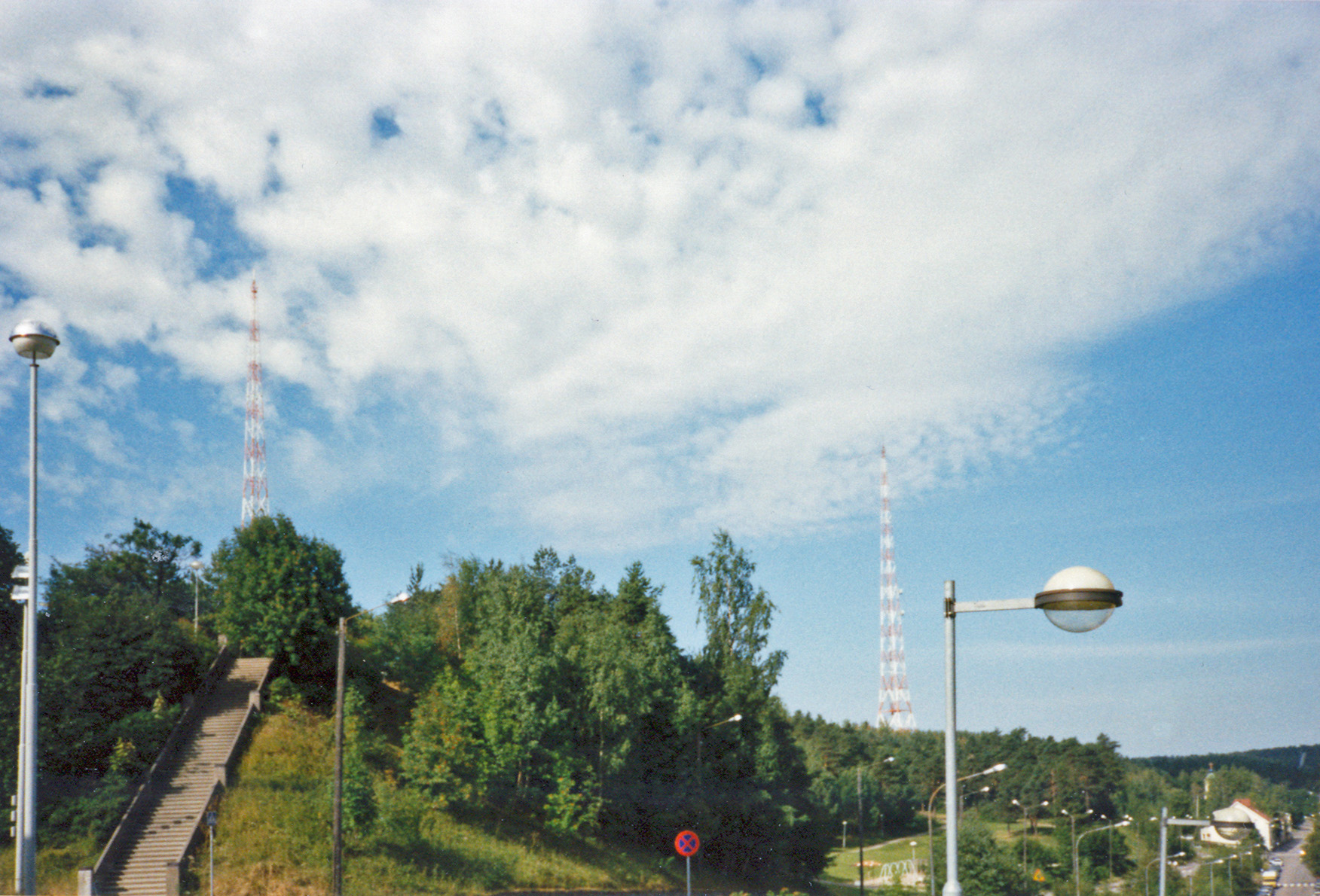 Lahti, Finland radio towers in 1989